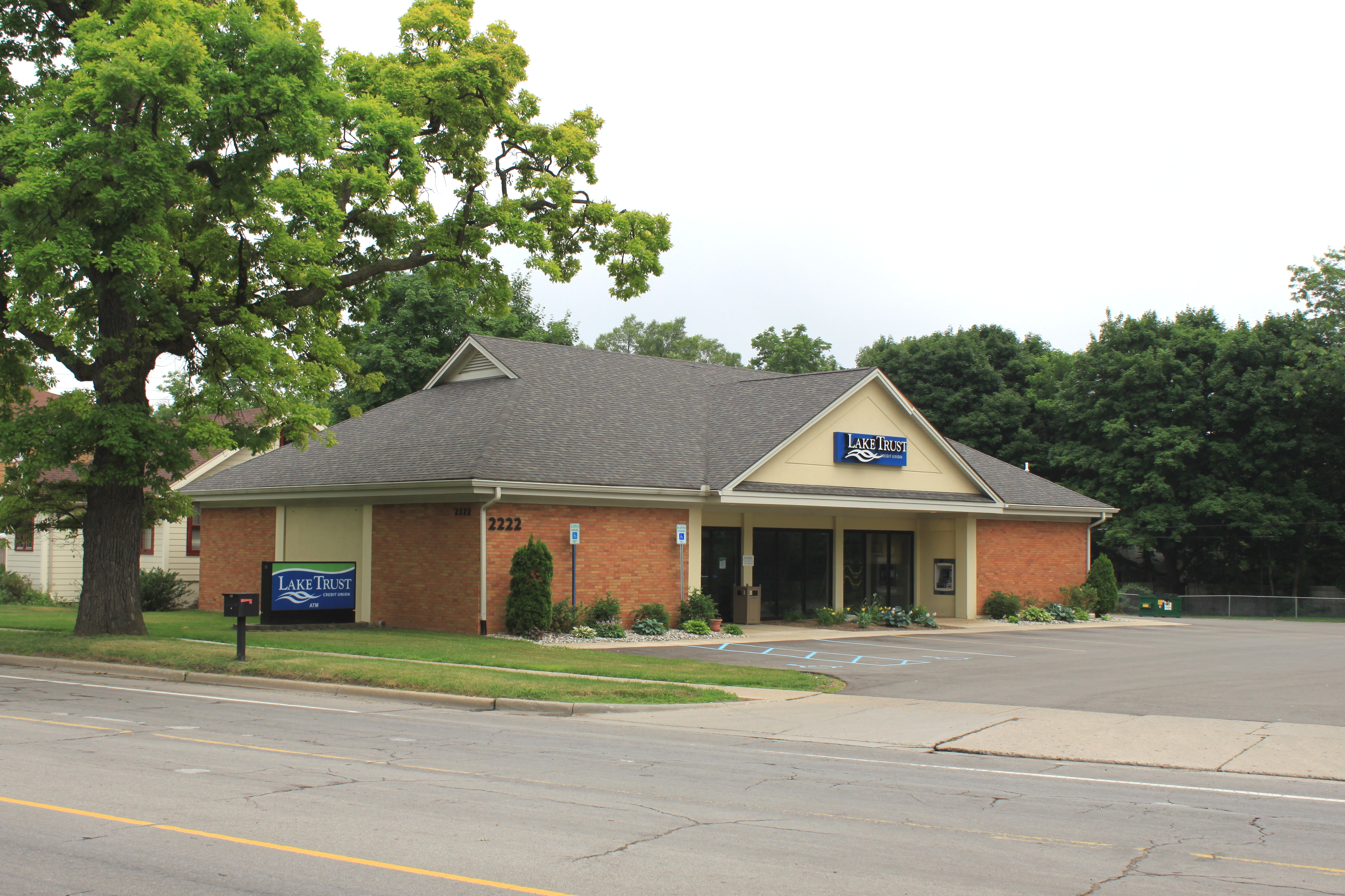 Lake Trust Credit Union branch office, 2222 Packard Street, Ann Arbor, Michigan